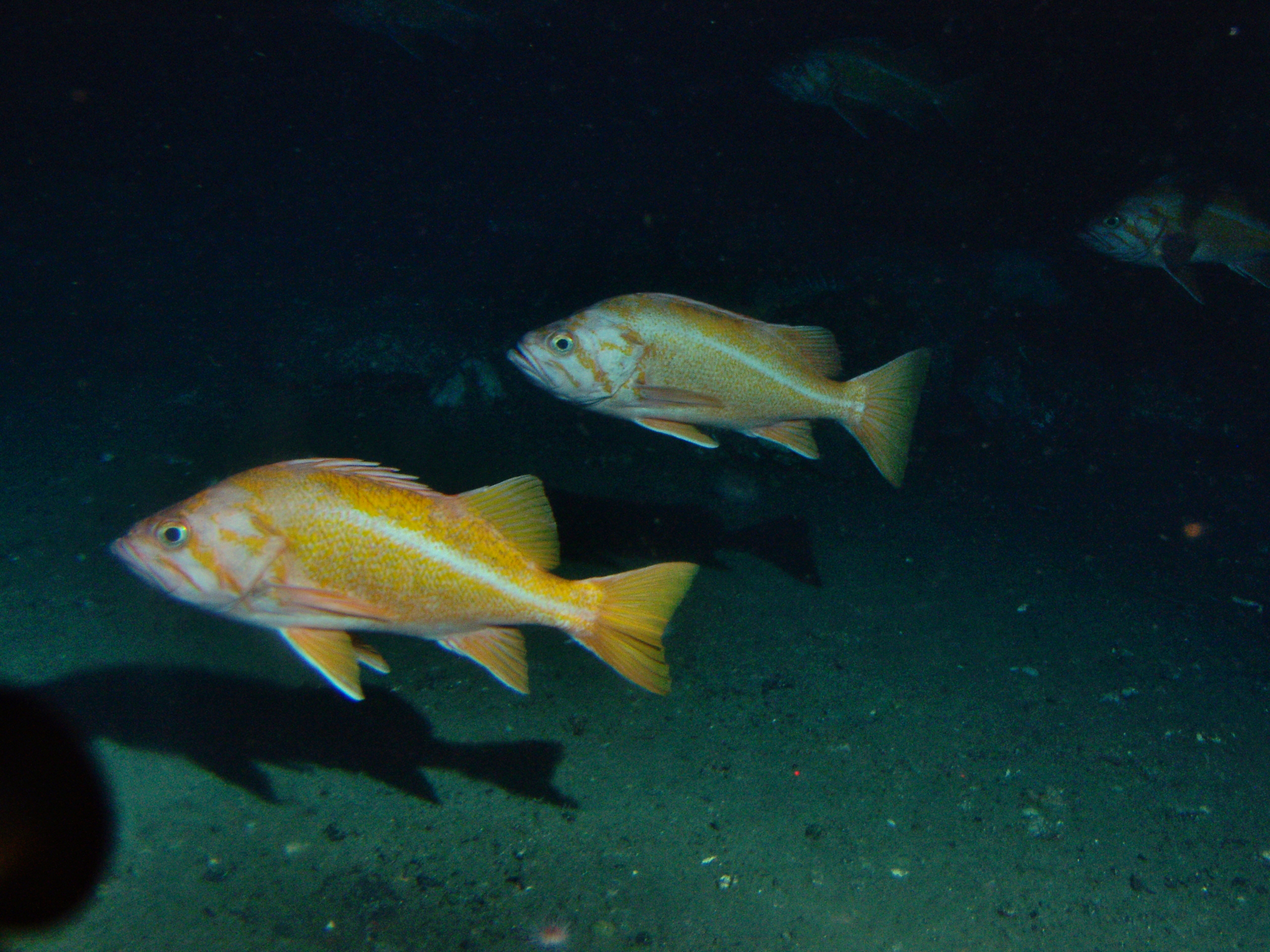 Two canary rockfish (Sebastes miniatus) in pelagic region of rocky reef at 175 meters depth. Latitude 38 03 N., Longitude 123 31 W. California, Cordell Bank National Marine Sanctuary.